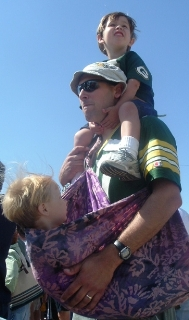 Photo taken by me as an example of a stay at home dad and kids.